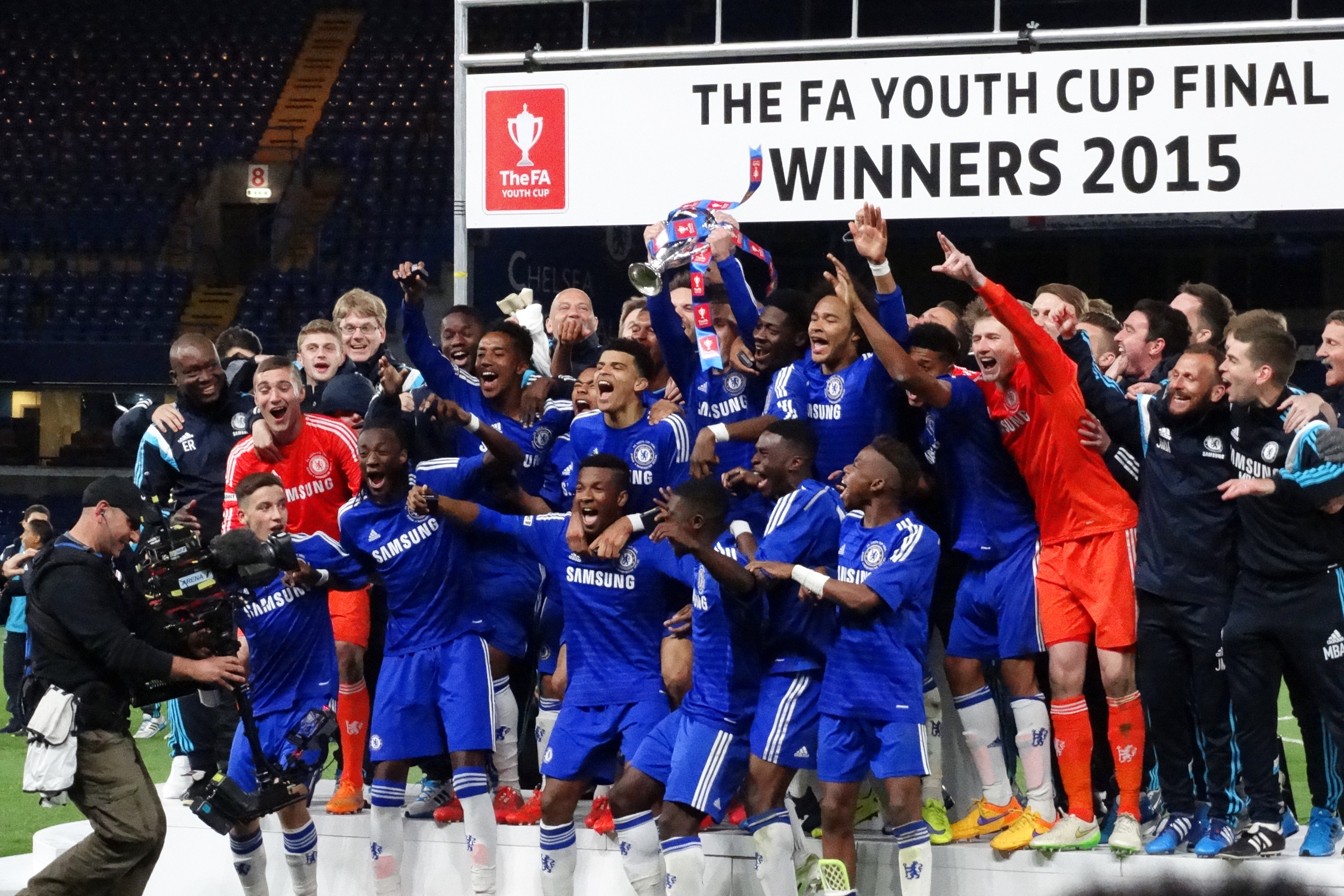 Chelsea FC U-18 players celebrating winning the 2014-15 FA Youth Cup final.